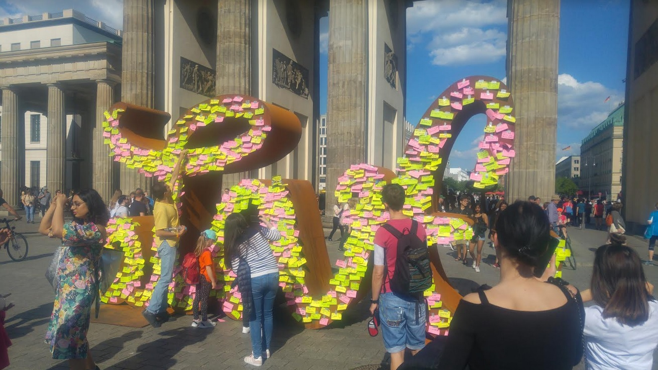 Sculpture by Mia Florentine Weiss infront of the Brandenburger Tor, 2019